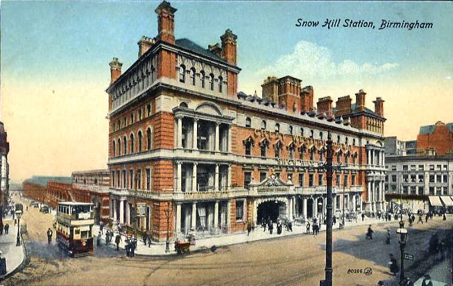 Birmingham Snow Hill Station, early 1900s.